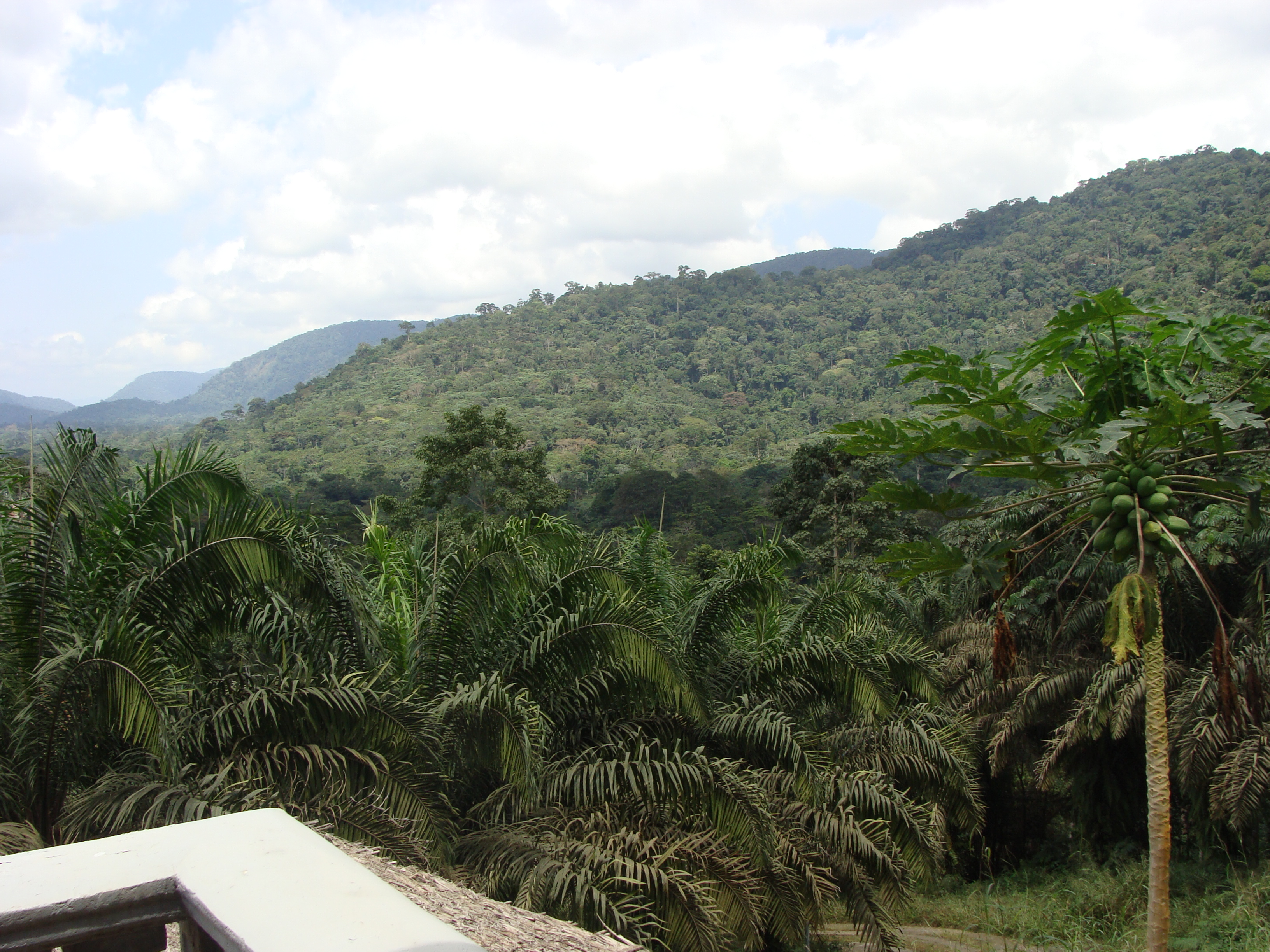 Monte Alén National Park in Equatorial Guinea, view from the visitor centre